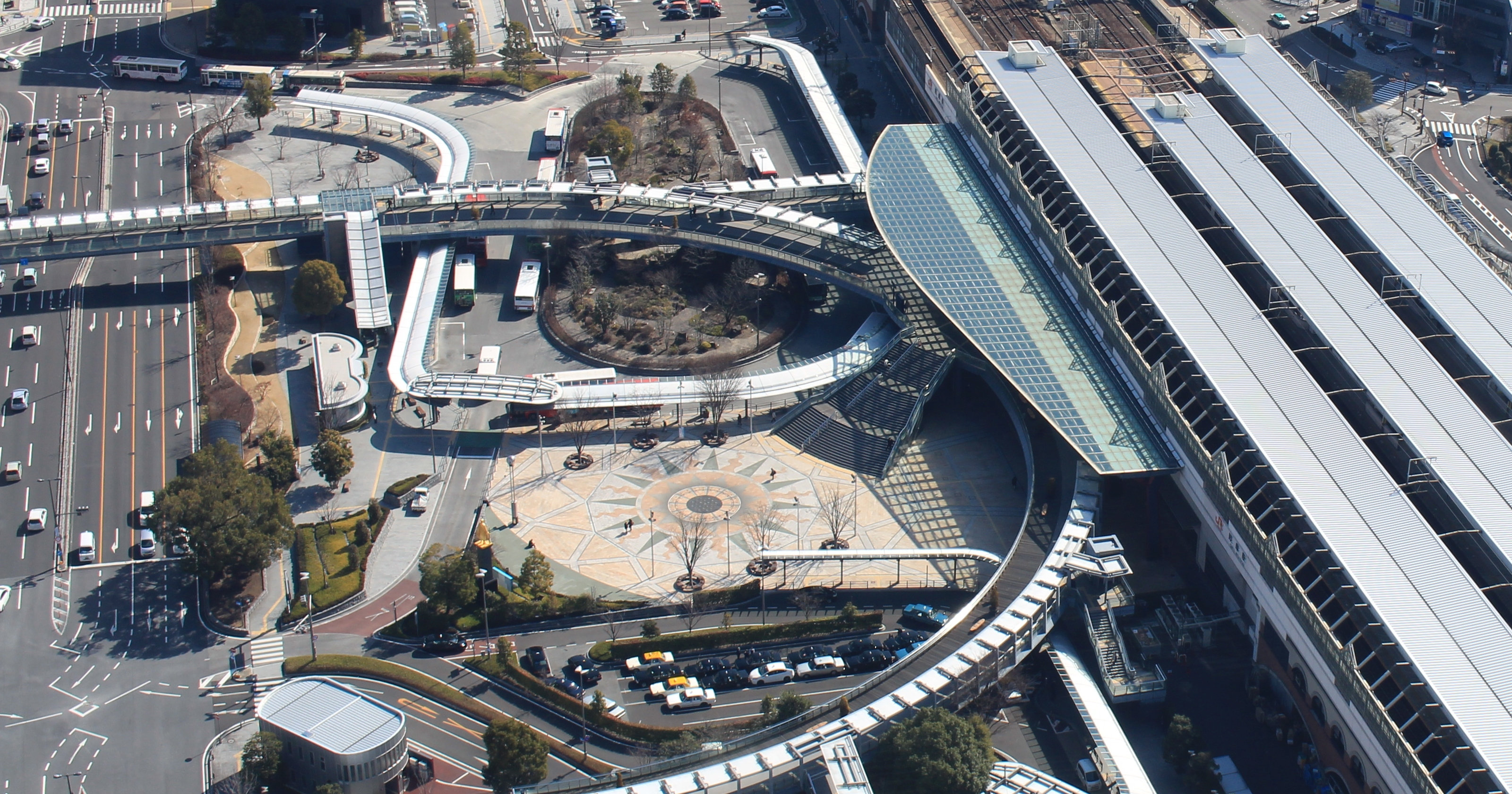 JR Gifu Station Bus Terminal at north entrance seen from Gifu City Tower 43 in Gifu city, Gifu prefecture, Japan